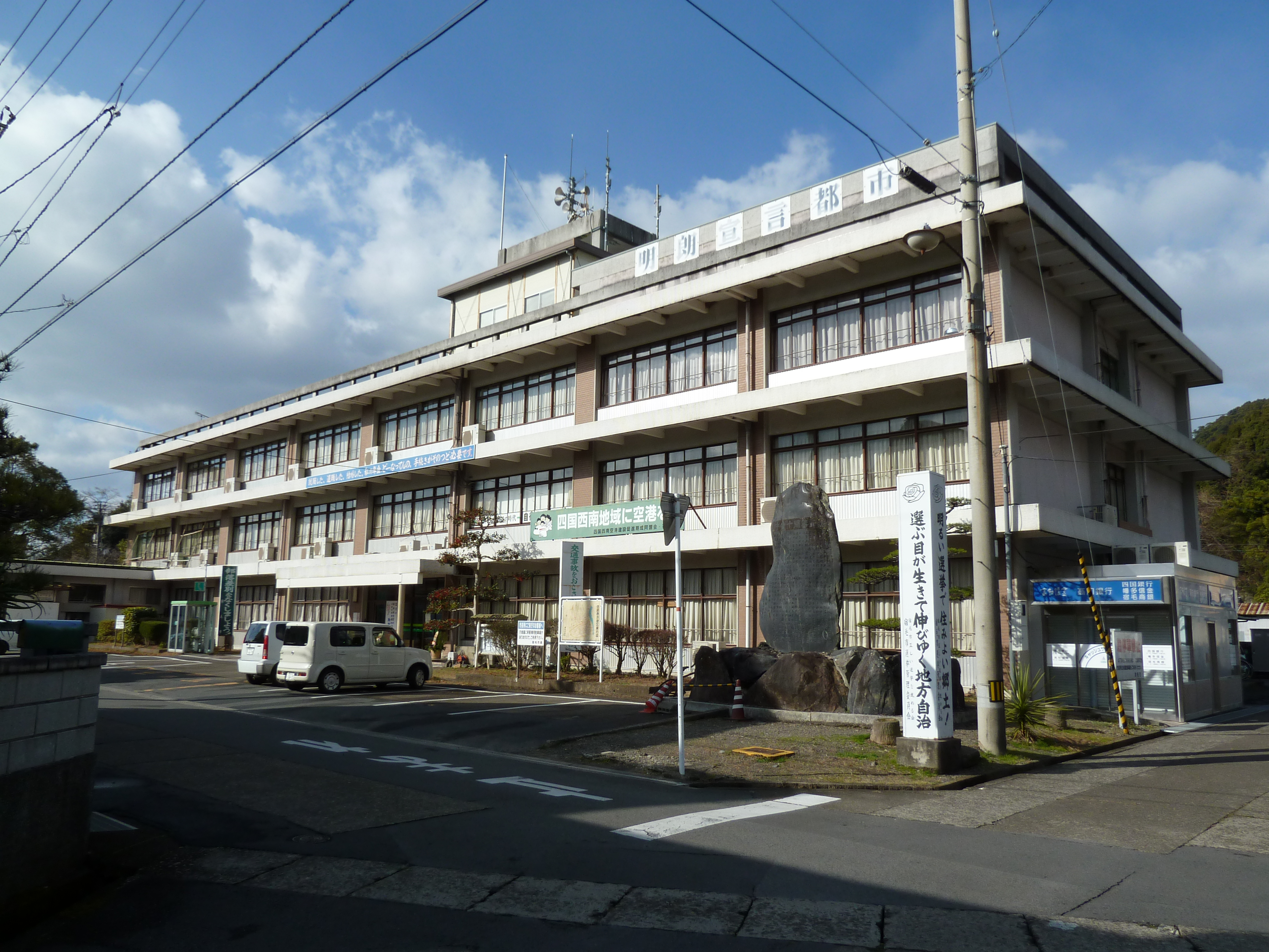 宿毛市役所